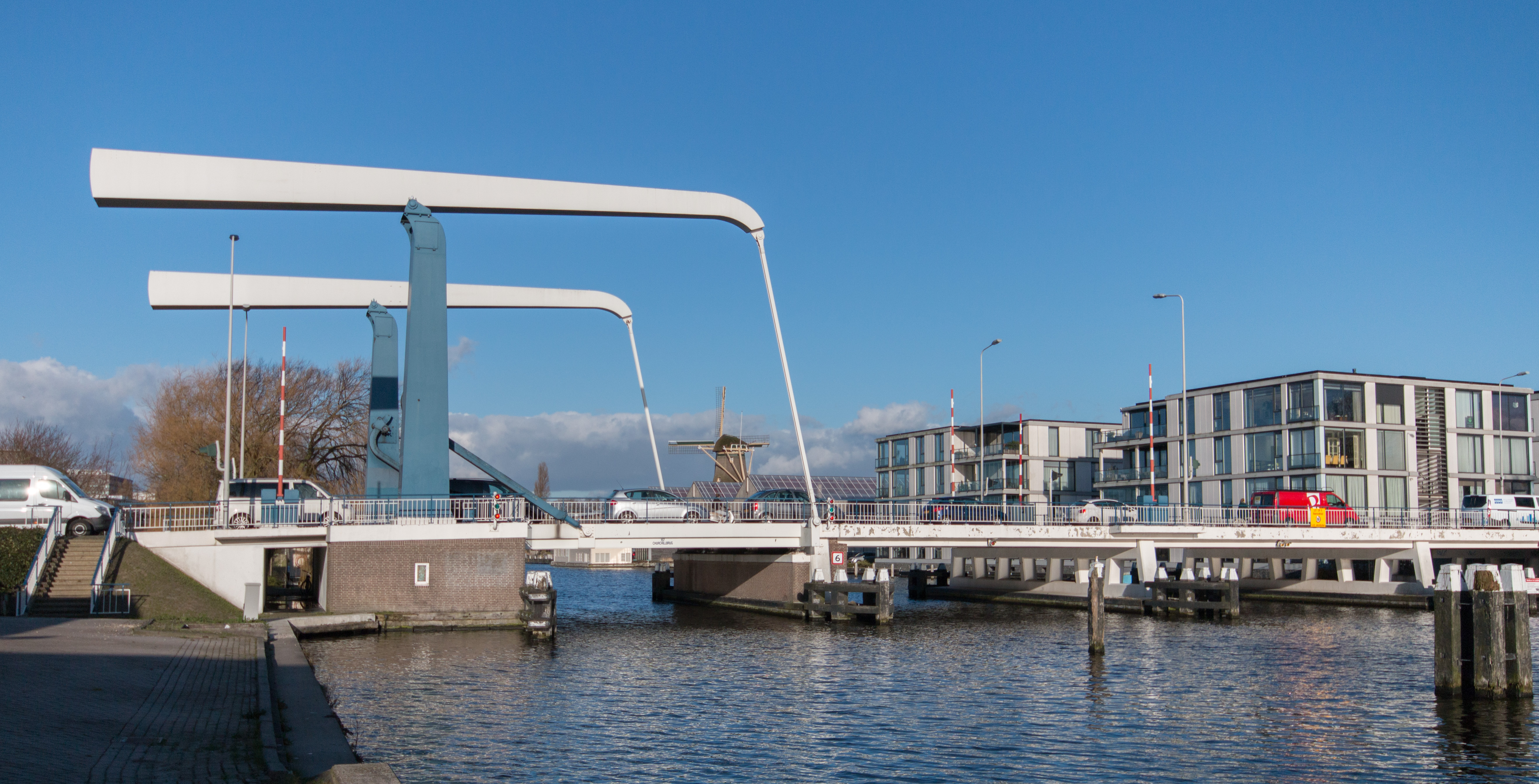 Leiden Churchill Bridge